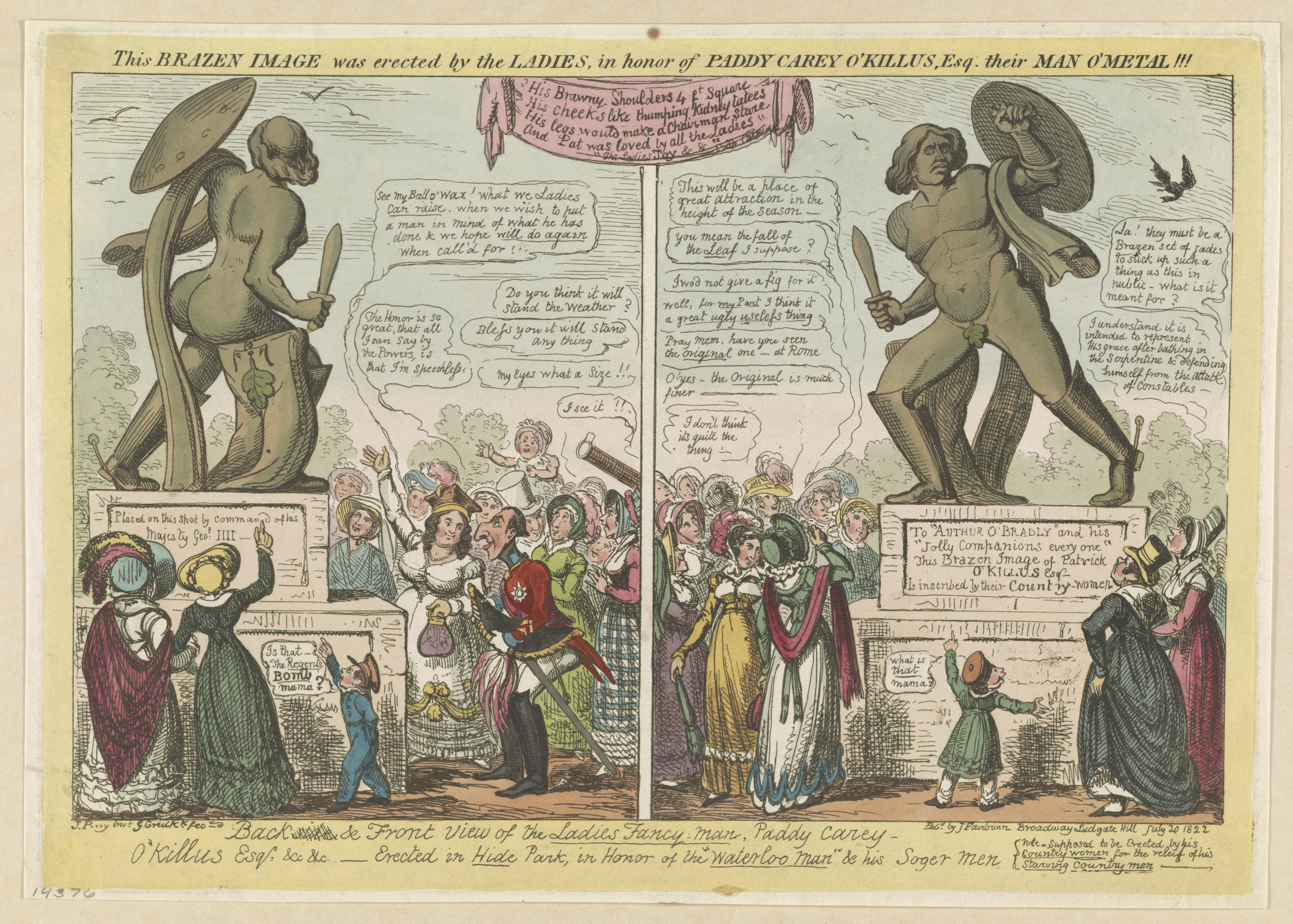 Title: Backside ['side' scored through] & front view of the ladies fancy-man, Paddy Carey O'Killus Dsq &c &c - Erected in Hide Park, in honor of the "Waterloo man" & his Soger men / / J. Pxxxy, invt. ; G. Cruikk, fect. Abstract/medium: 1 print : etching, hand-colored ; plate mark 25 x 36 cm.